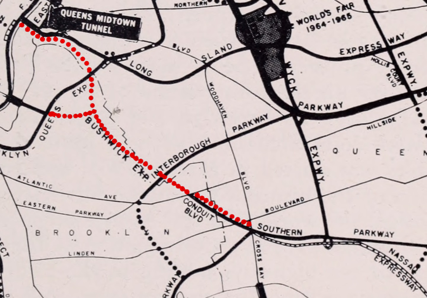 A cropped highway map from the 1964 NYC Parks Department book, "30 years of progress". Highlighted in red is the proposed but never-constructed Bushwick Expressway, running from Howard Beach, Queens along the existing Conduit Boulevard through northern/central Brooklyn to the Williamsburg Bridge and Queens Midtown Tunnel. The route would have been part of Interstate 78 and/or Interstate 878, along with the Holland Tunnel, Lower Manhattan Expressway, and Nassau Expressway.